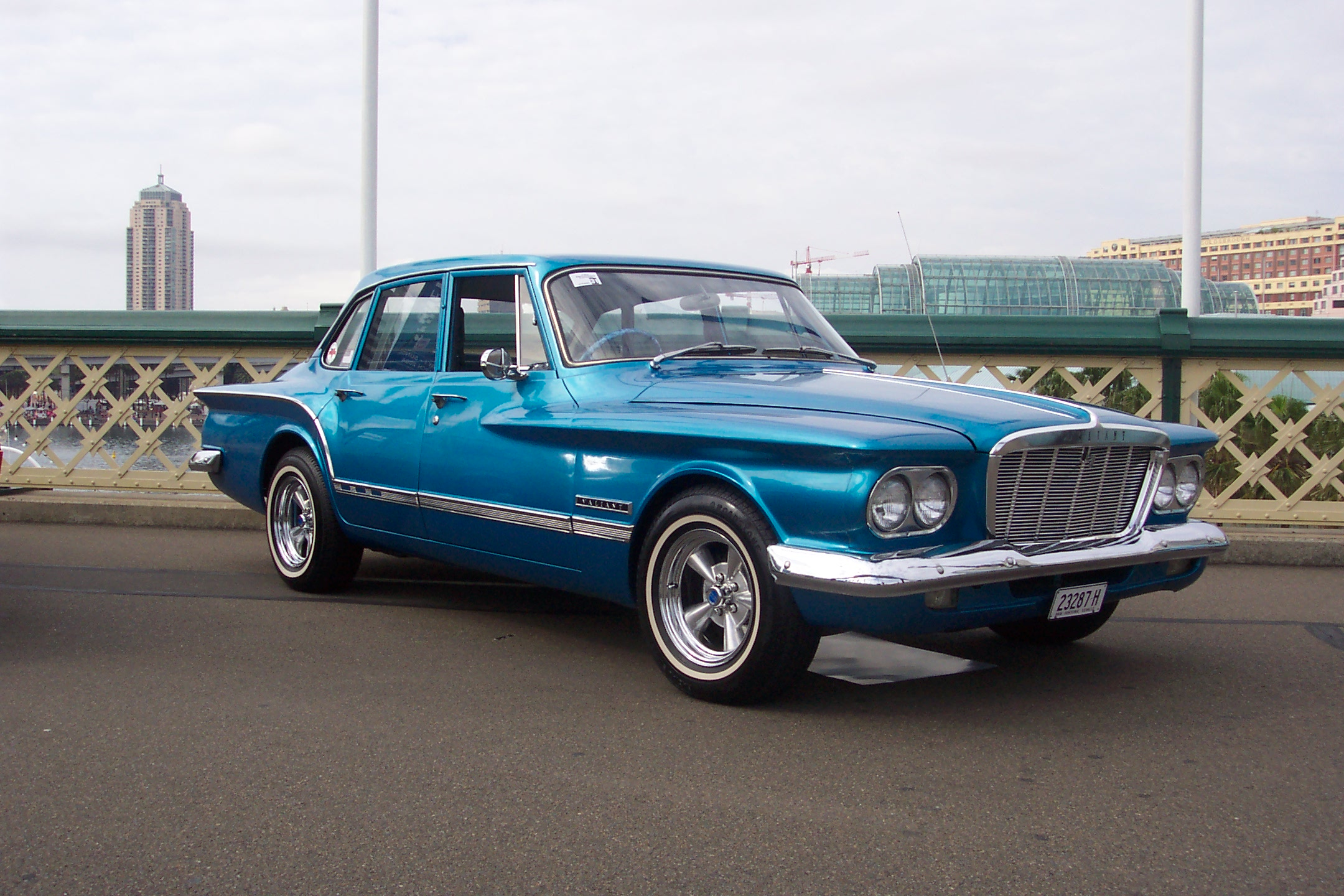 1962 Chrysler SV1 Valiant (S series) sedan. Taken at the Chrysler & Valiant Owners Association 2004 Display Day, held on Pyrmont Bridge, a historic swing bridge that spans Darling Harbour in Sydney.